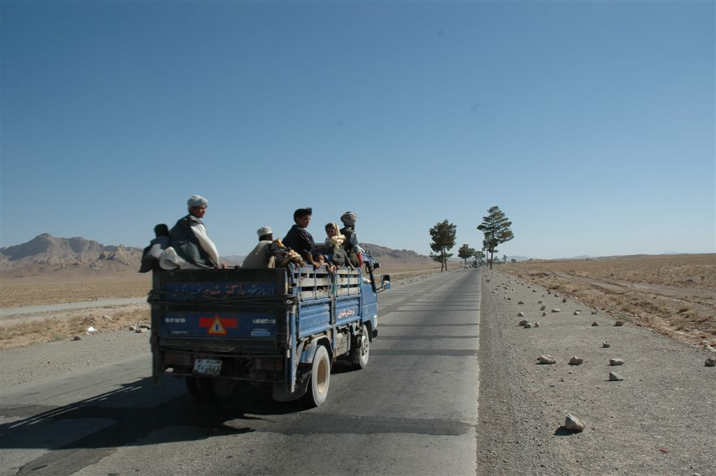 Car passing on a highway in Herat, Afghanistan